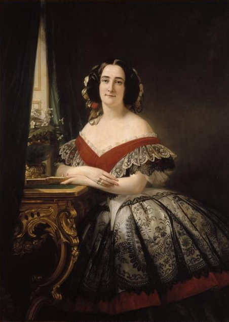 Portrait of Sarah Anne Elisabeth Moncure, wife of Pierre-Paul Pecquet du Bellay, unofficial Confederate envoy in France.